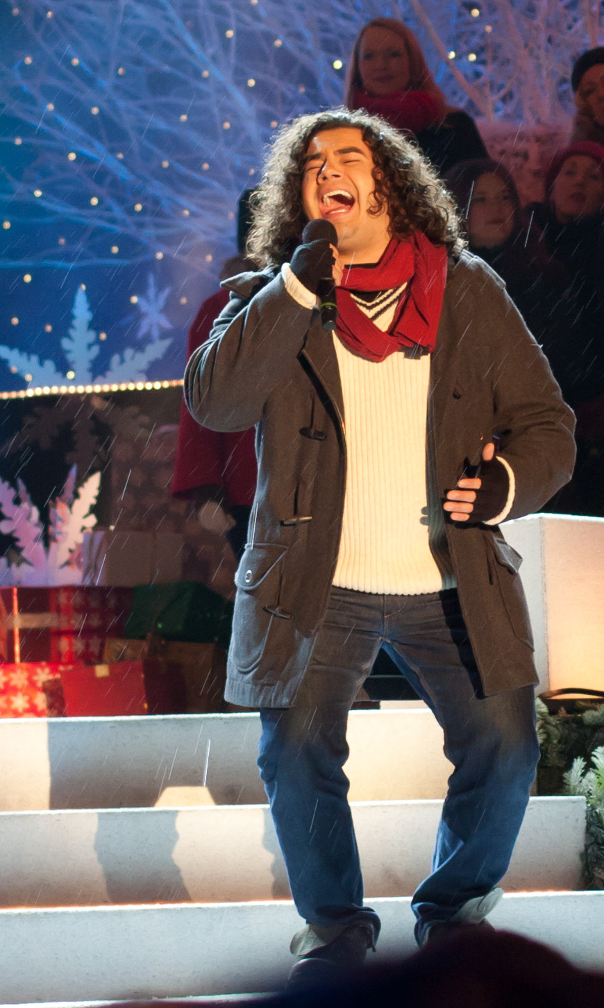 Chris Medina performing at Liseberg, December 11, 2011